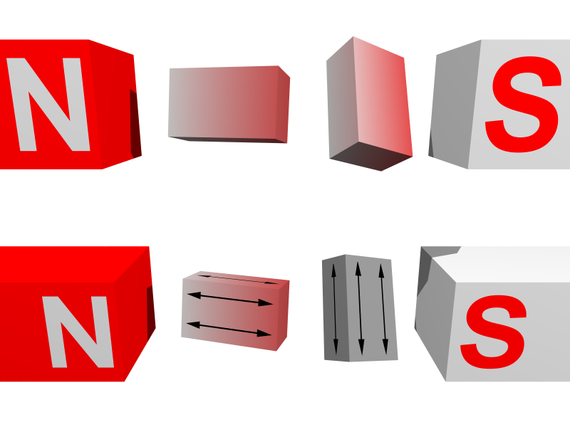 This image demonstrates the difference between "ordinary" ferromagnetic materials (above), and orthomagnetic materials (below): The latter only form magnetic poles (indicated on the samples by red/white color gradient) if the external field provided by the big magnet poles at left and right is aligned with the orthomagnetic axis, as indicated by the little black arrows.